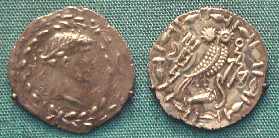 South Arabian (probably Hymiarite) coin, 1st century CE, influenced by coins of Augustus.